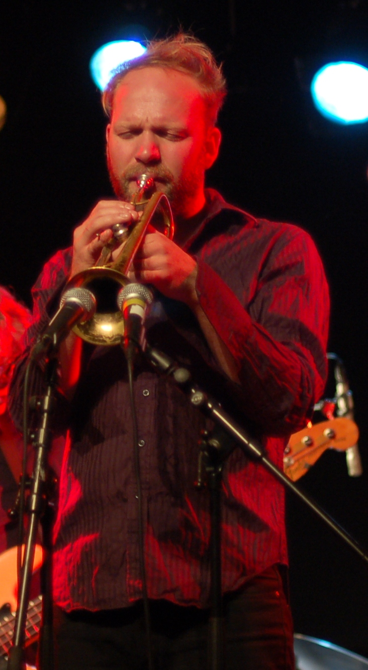 Mathias Eick, Energimølla in Kongsberg (Norway) September 29, 2010